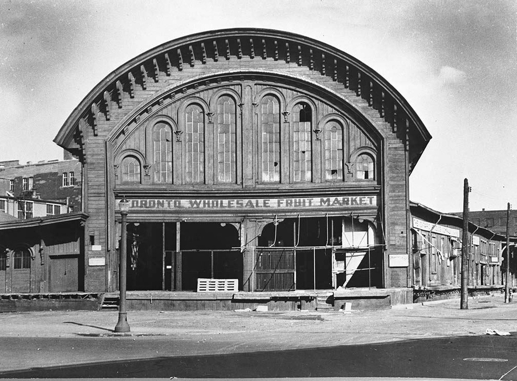 Toronto wholesale fruit market, formerly the Grand Trunk Railway Station, at Yonge Street and the Esplanade. Toronto, Canada.